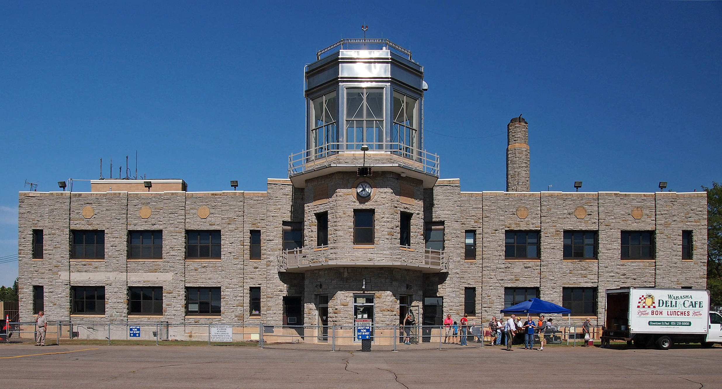 Holman Field Administration Building, St Paul, Minnesota, USA. Taken during an open house event.